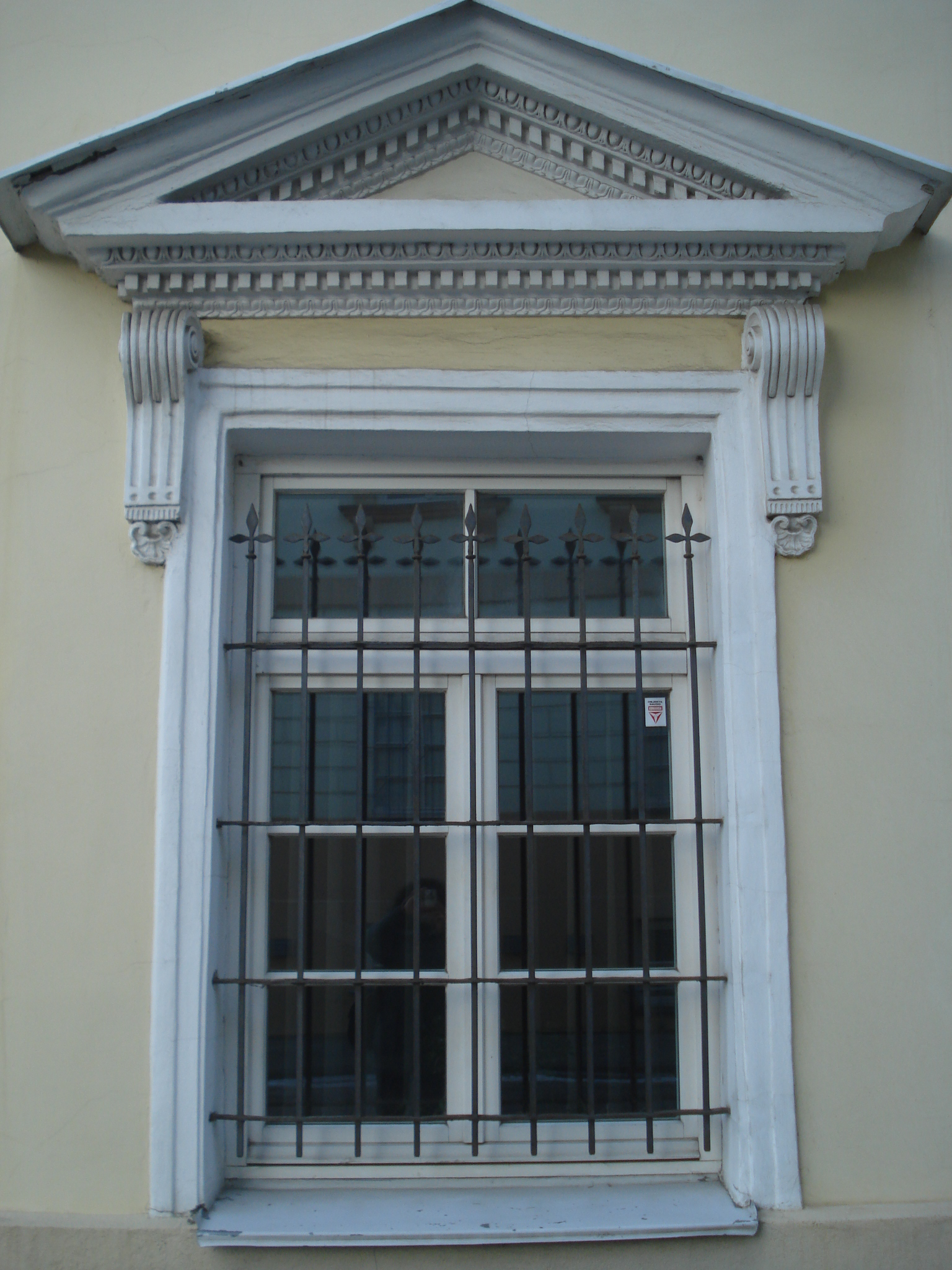 Lopacinskiai (Sulistrovskiai) Palace in Vilnius Old Town, Skapo street 4. First floor windows are decorated with triangular fragments